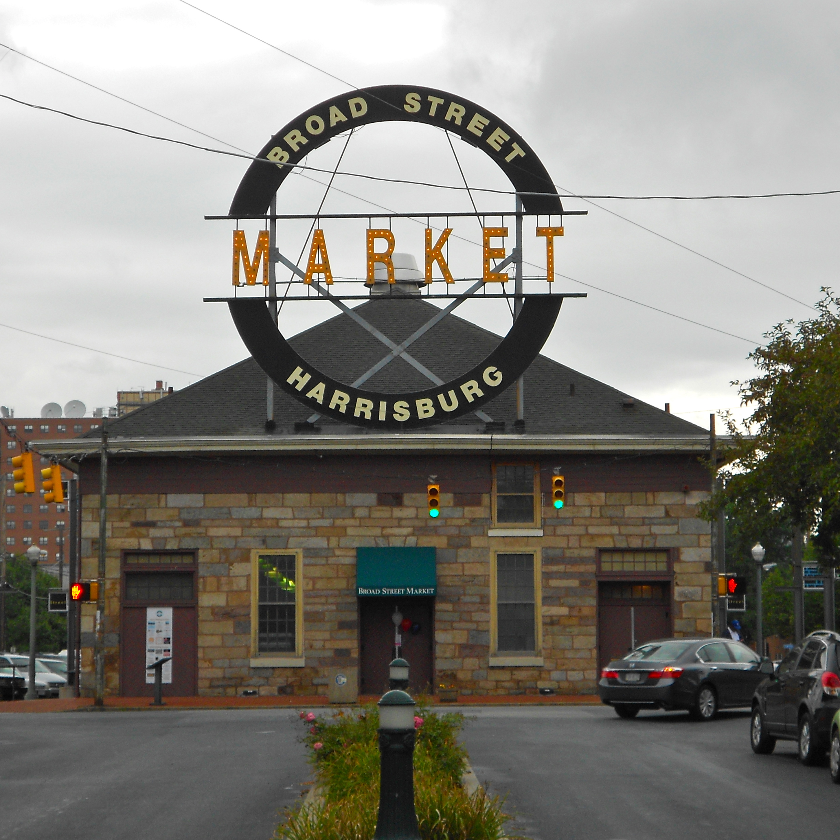 Broad Street Market on the NRHP since December 27, 1974. Located on Verbeke Street (formerly call Broad Street) between 3rd and 6th Streets, in Harrisburg, Pennsylvania.